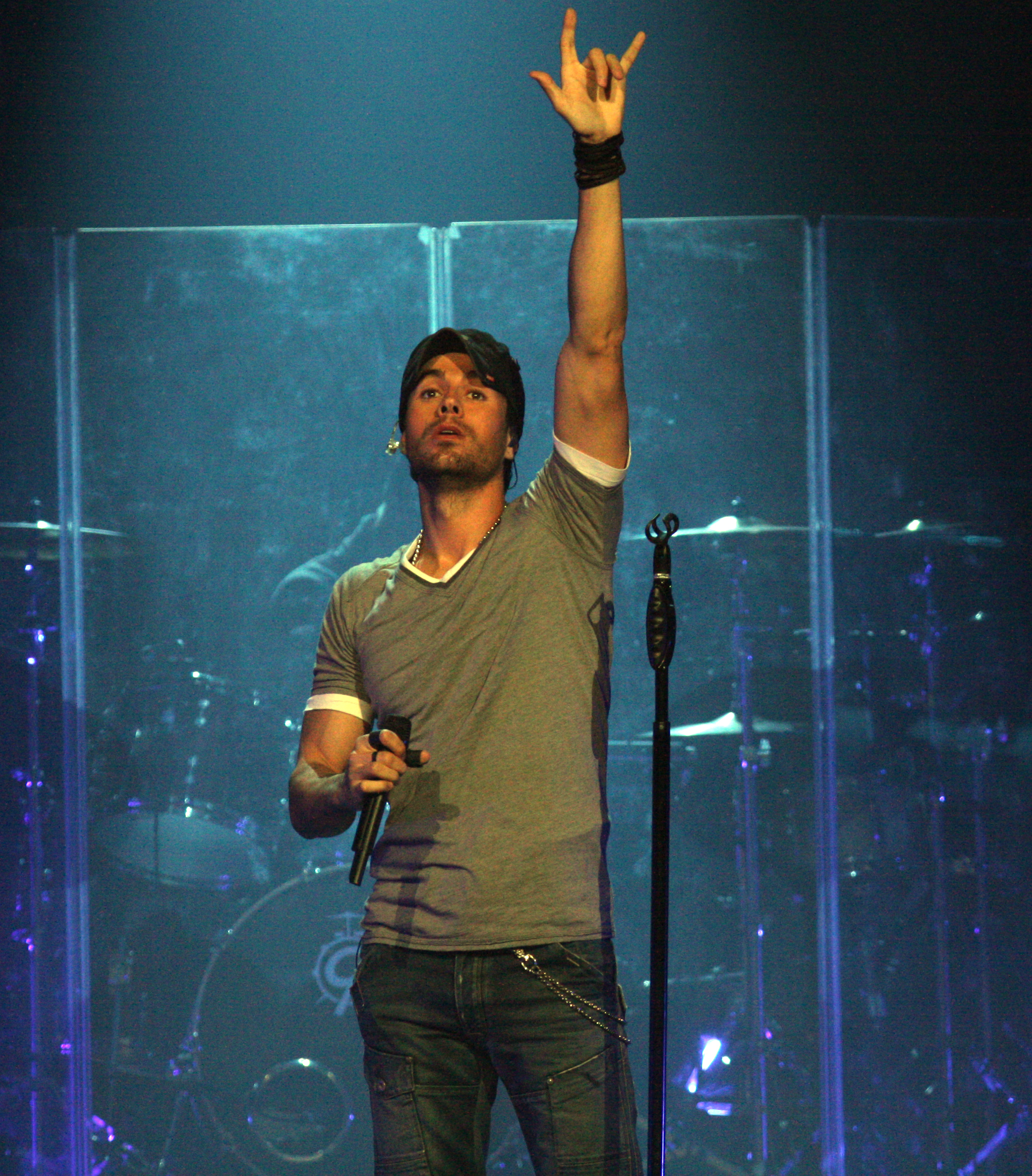 Enrique Iglesias